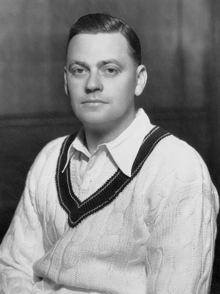 Australian cricketer Bill Woodfull (William M Woodfull, 1897 - 1965).